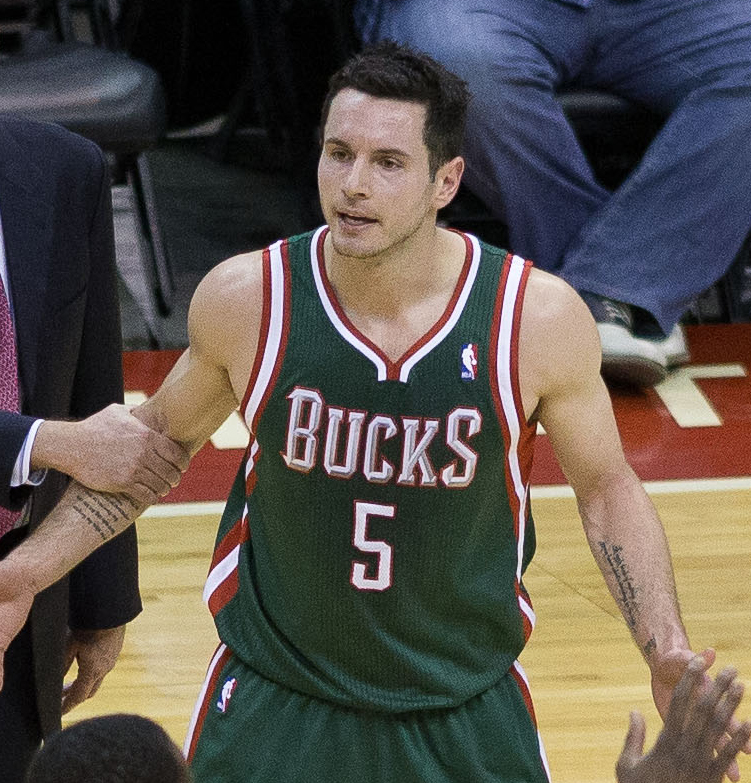 J.J. Redick